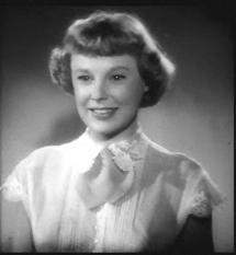 Cropped screenshot of June Allyson from the trailer for the film The Reformer and the Redhead